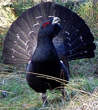 Cropped version of Image:Capercaillie Lomvi 2004.jpg. From sv: Wikipedia